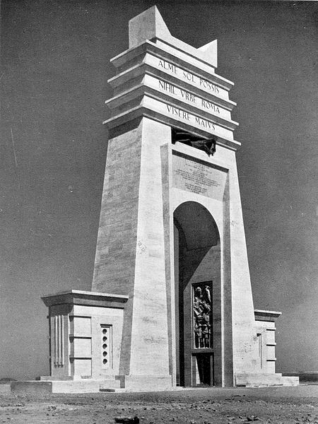 The destroyed Arch of the Philaeni in Libya in 1937